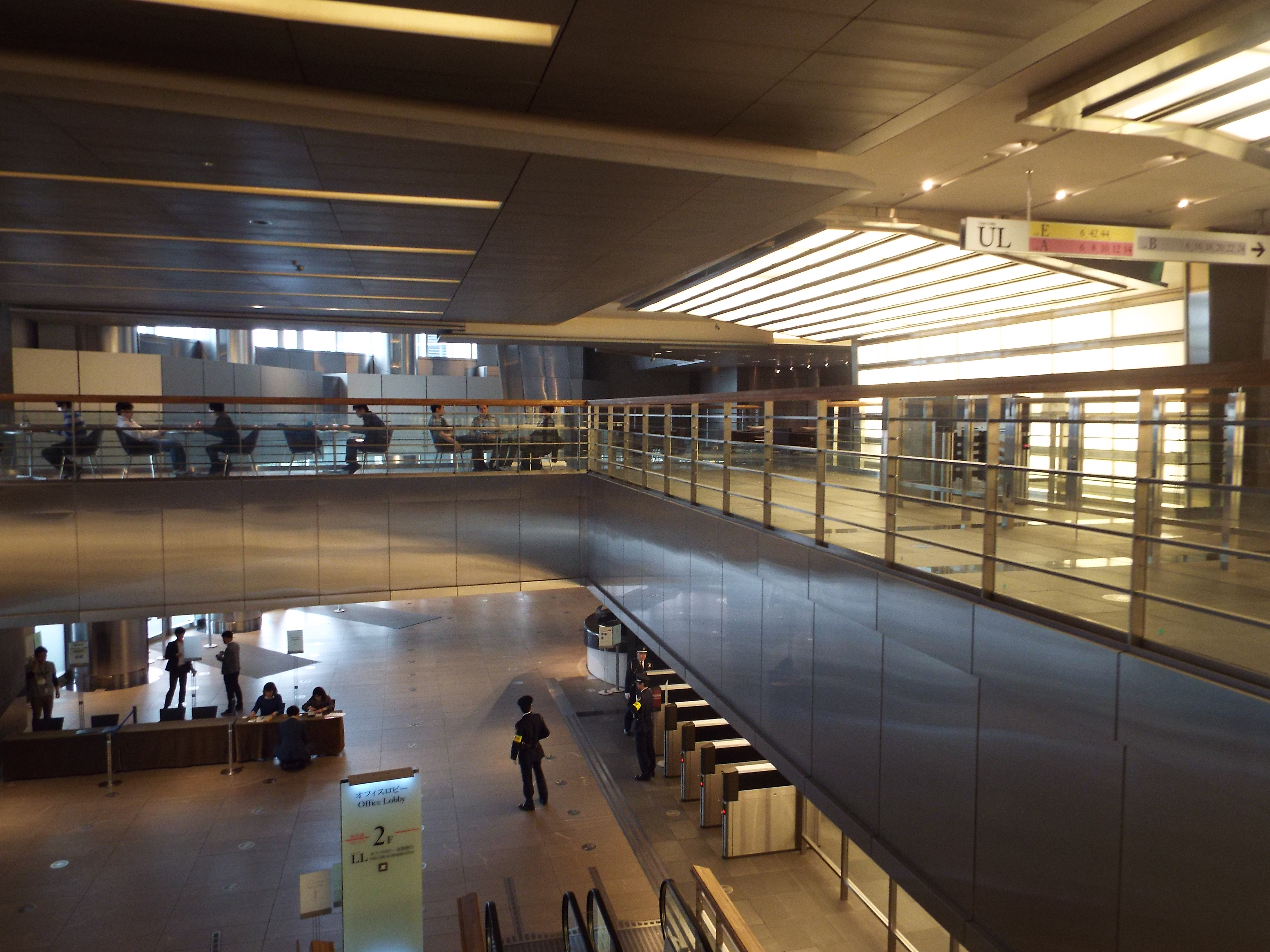 Mori Tower Upper Lobby